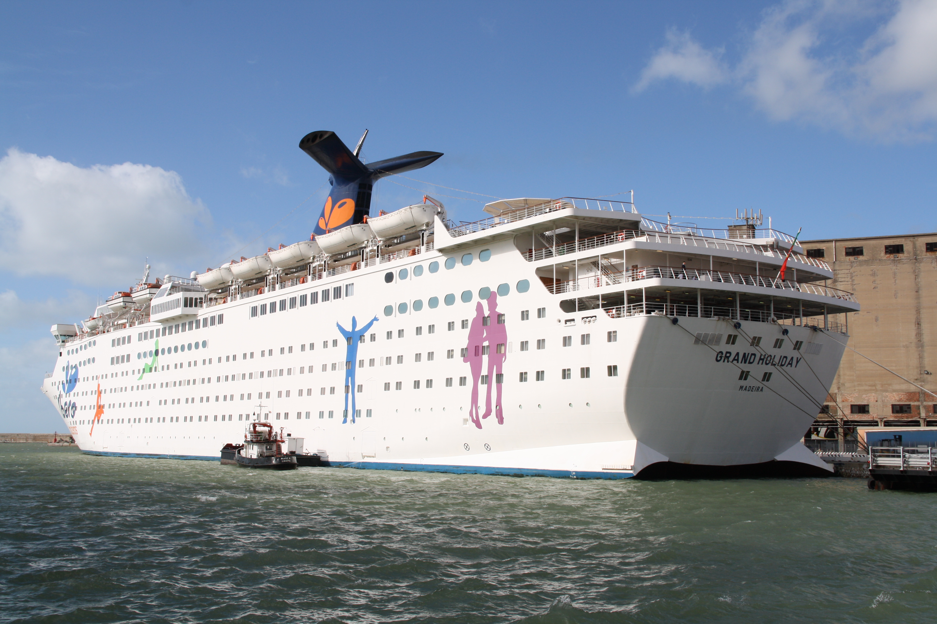 Italy, Port of Livorno. The Ibero Cruises ship Grand Holiday berthed at "Sgarallino" wharf of "Porto Mediceo".